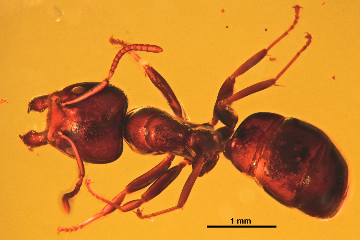 Dorsal view of a Ctenobethylus goepperti worker. Middle Eocene; Baltic amber, Samland Peninsula, Kalingrad, Russia Freiheit collection, Offenbach, Germany; Specimen HJF009